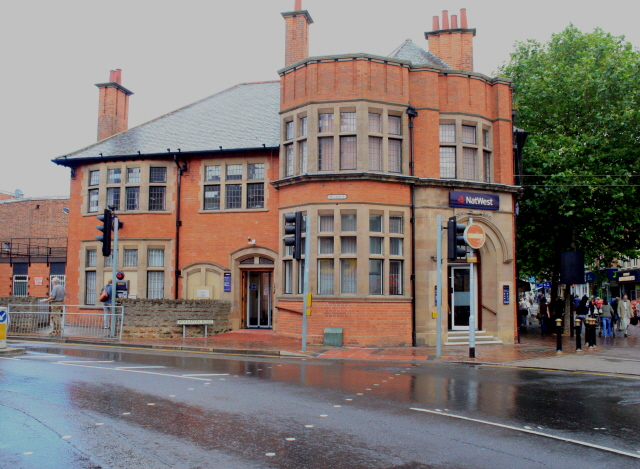 Beeston Nat West. Bank Branch on the corner of Wollaton Road and High Road.